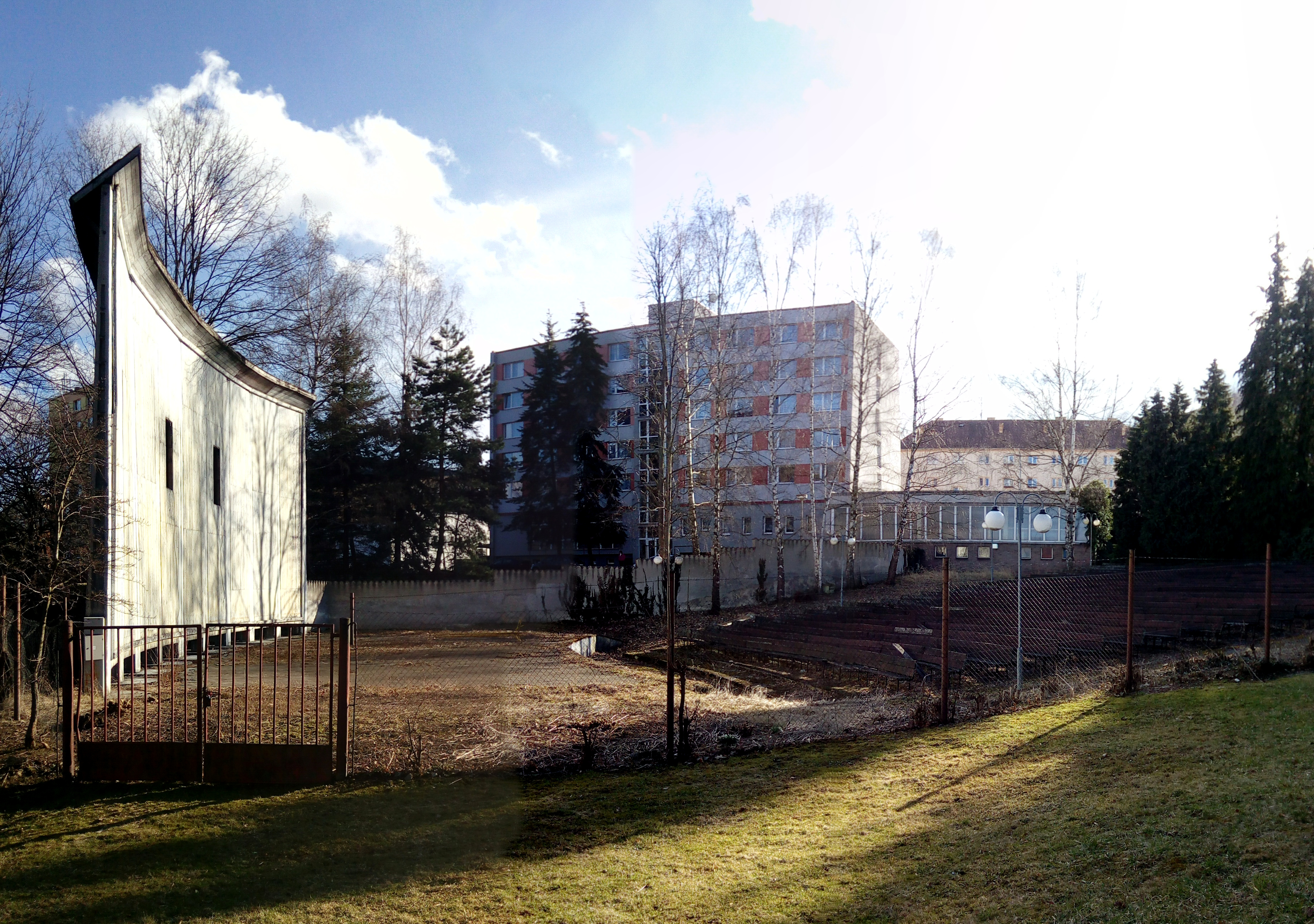 Open air cinema in Prachatice, south Bohemia, Czech Republic